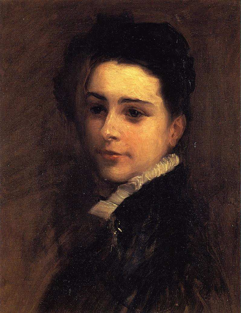 Mrs. Charles Deering John Singer Sargent -- American painter c. 1877 ?? Rhode Island School of Design Museum of Art Oil on canvas 55.88 x 43.18 cm (22 x 17 in.) Jpg: The Athenaeum